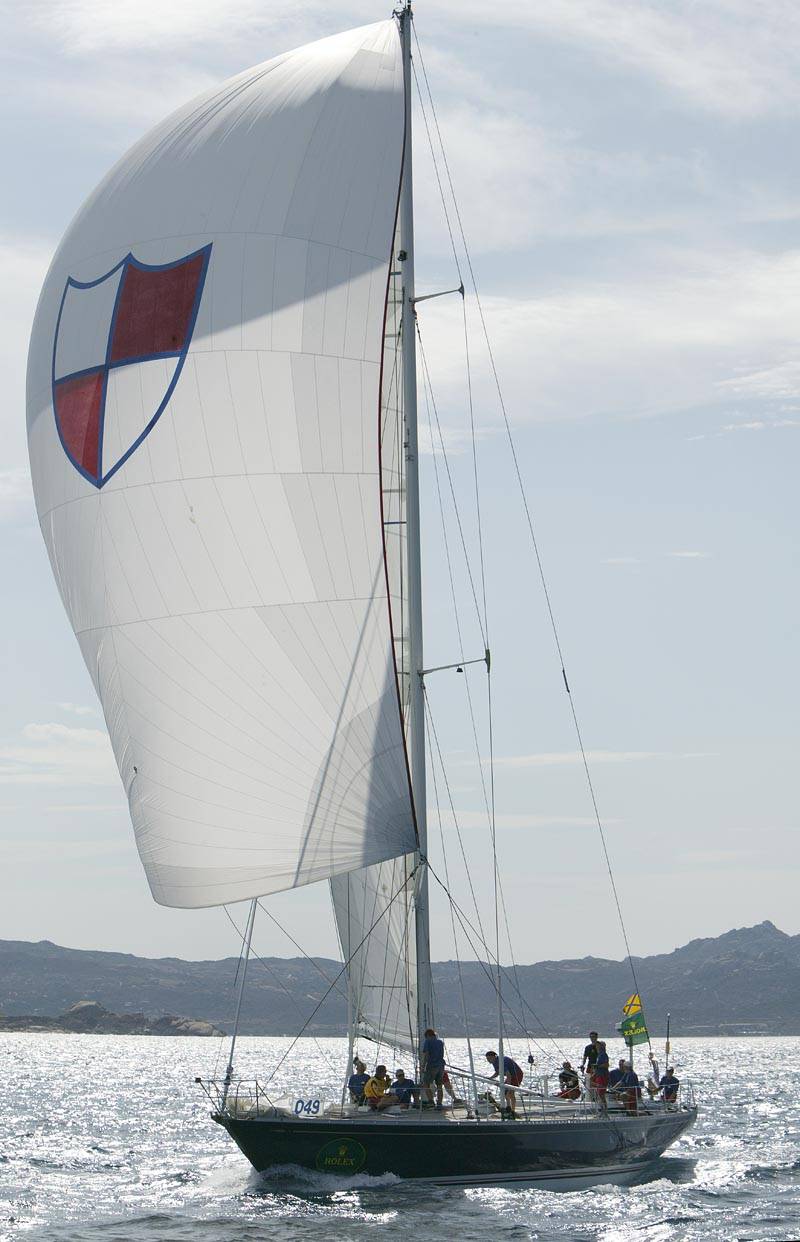 Sailing yaght King's Legend hoisting the genua.